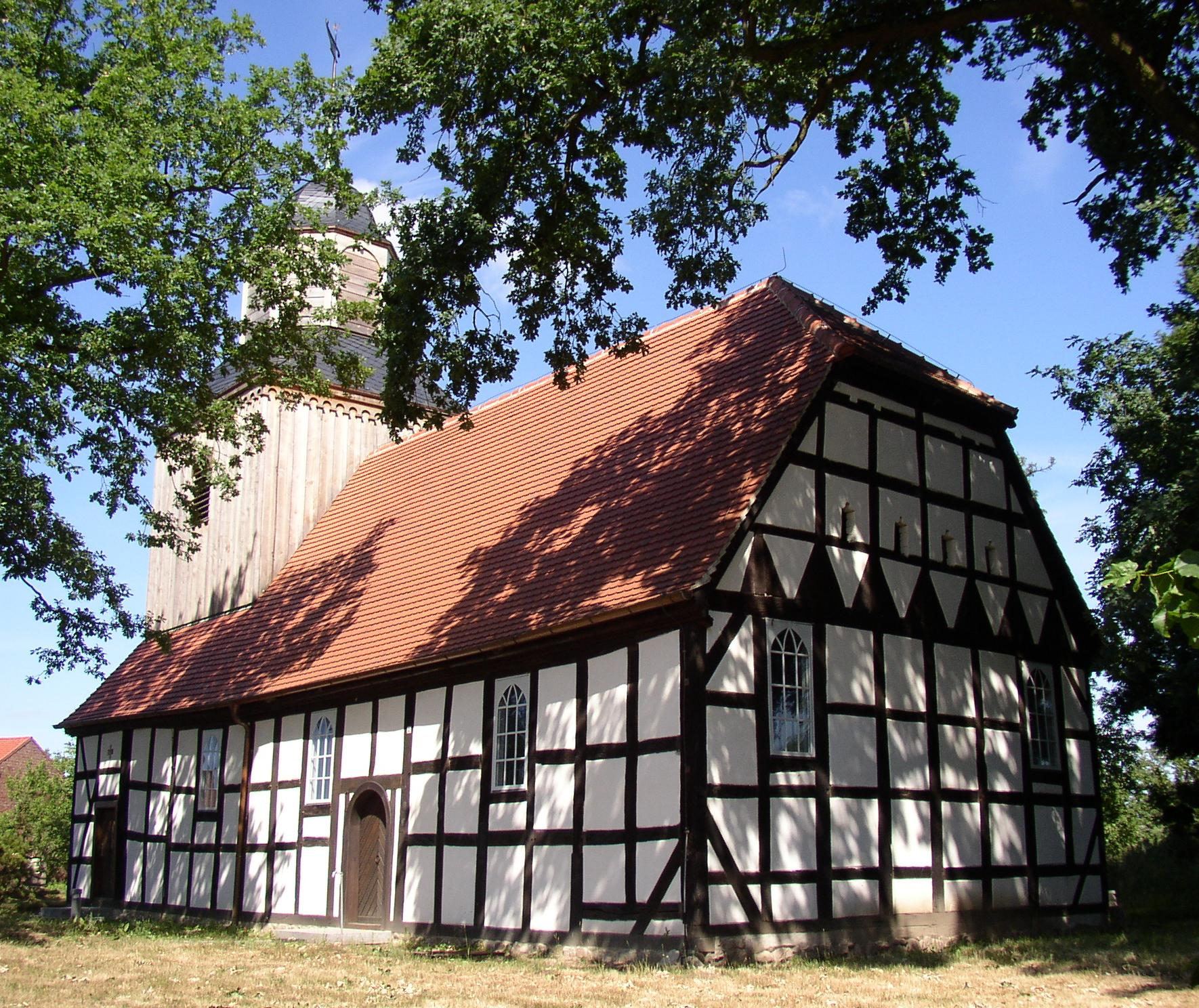 South-eastern view of church in Grabow bei Blumenthal, Heiligengrabe municipality, Ostprignitz-Ruppin district, Brandenburg state, Germany